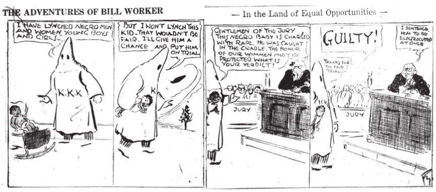 In response to the Scottsboro Boys trial, Ryan Walker depicts a member of the Ku Klux Klan taking a black baby from a cradle and charging him with rape; the jury instantly finds the baby guilty, and the judge instantly sentences the baby to death. The text in this image should be transcribed and included in the description on this page. See also Transcription . The Google OCR tool may be of use in transcribing images.